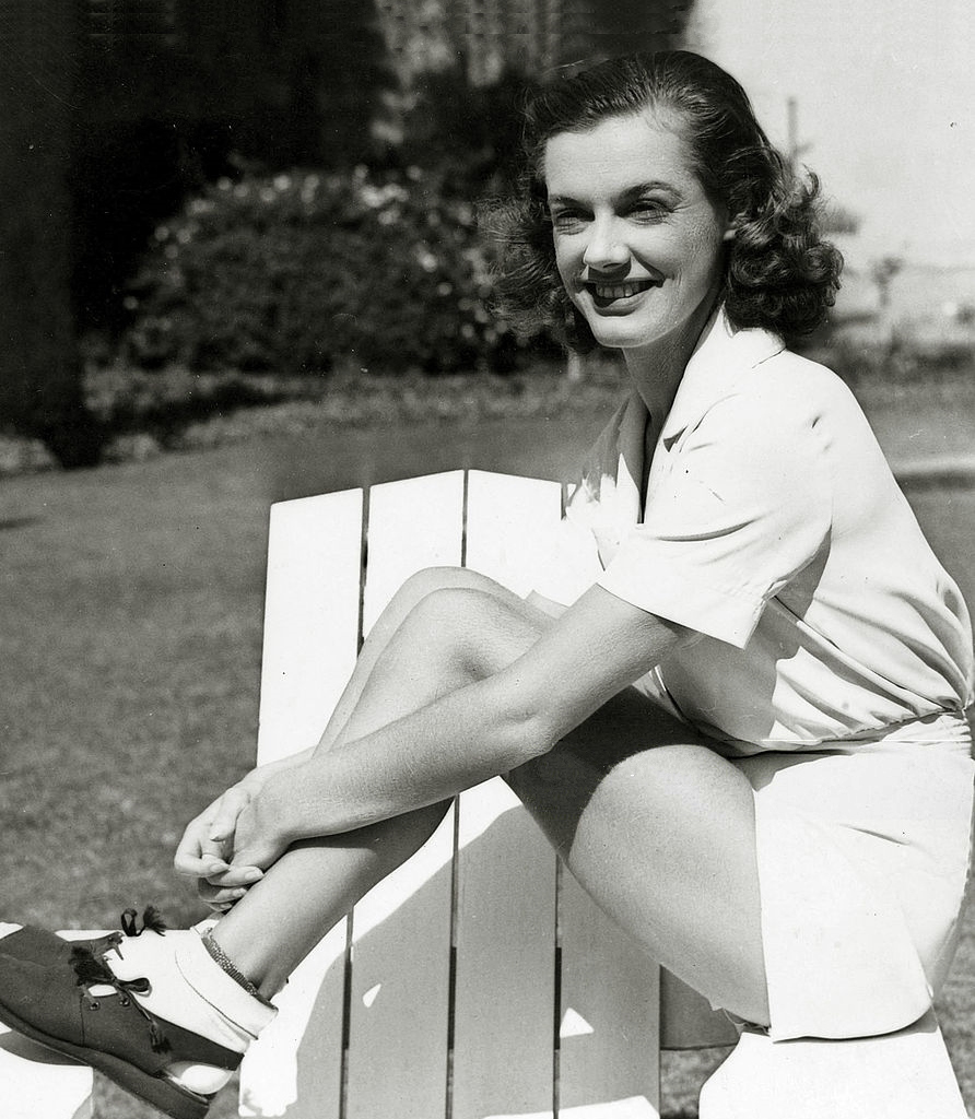 circa 1936, American Eleanor Holm, (1913-2004) the 1932 Olympic Games Gold medalists for the Womens 100 metres Backstroke, who failed to make the 1936 US,Olympic team, after being found , allegedly, in a coma after a drinking party, The former glamour girl of swimming then turned professional and appeared in swimming spectaculars